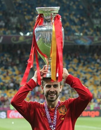 Gerard Piqué with Euro 2012 trophy